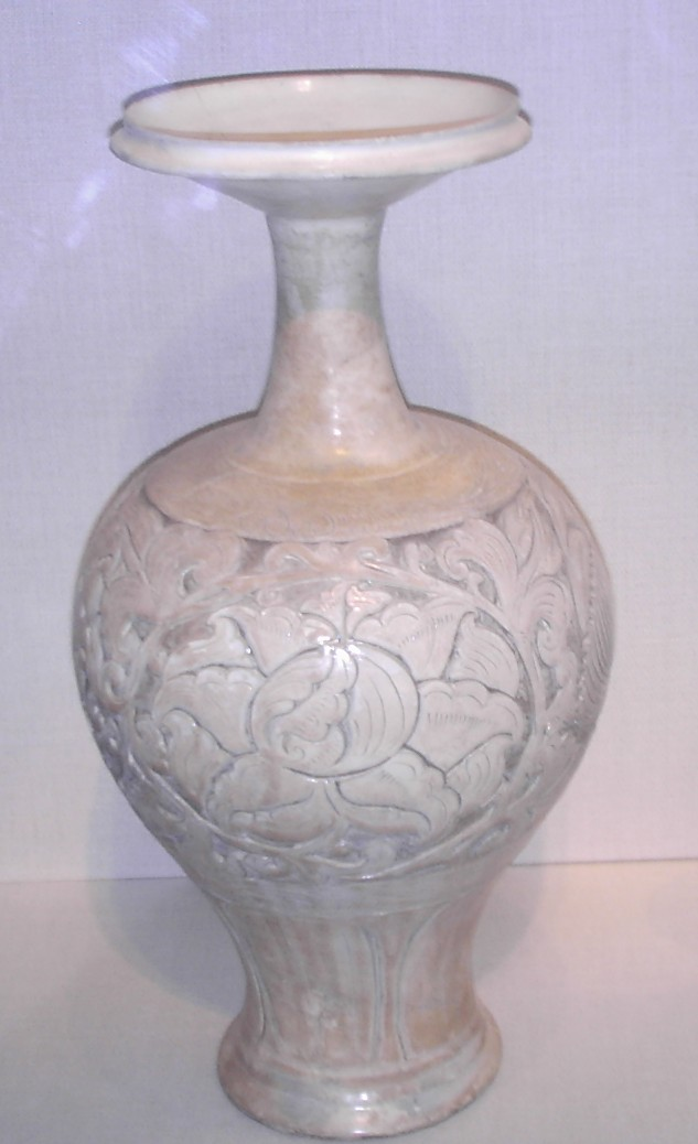 A Chinese Song Dynasty (960-1279 AD) cizhou-type stoneware vase with sgrafitto decoration and carved white slip under a transparent colorless glaze; made in the 11th century, most likely in Dengfeng County of Henan province. From the Freer and Sackler Galleries of Washington D.C. Author: User:PericlesofAthens Date: August 3, 2007